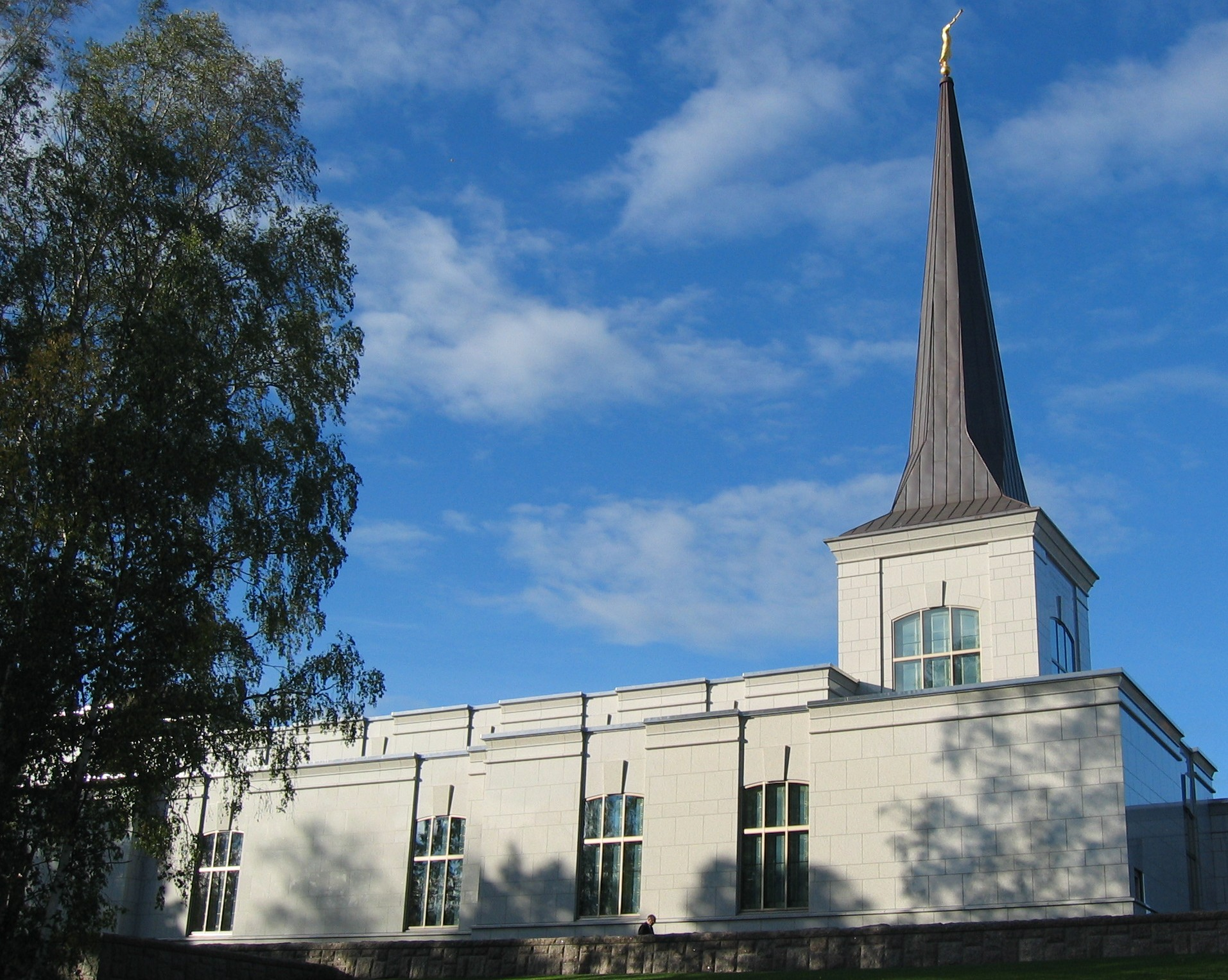 Cropped version of public domain image Image:IMG 2522.JPG, any rights I have for cropping it I also release to the public.